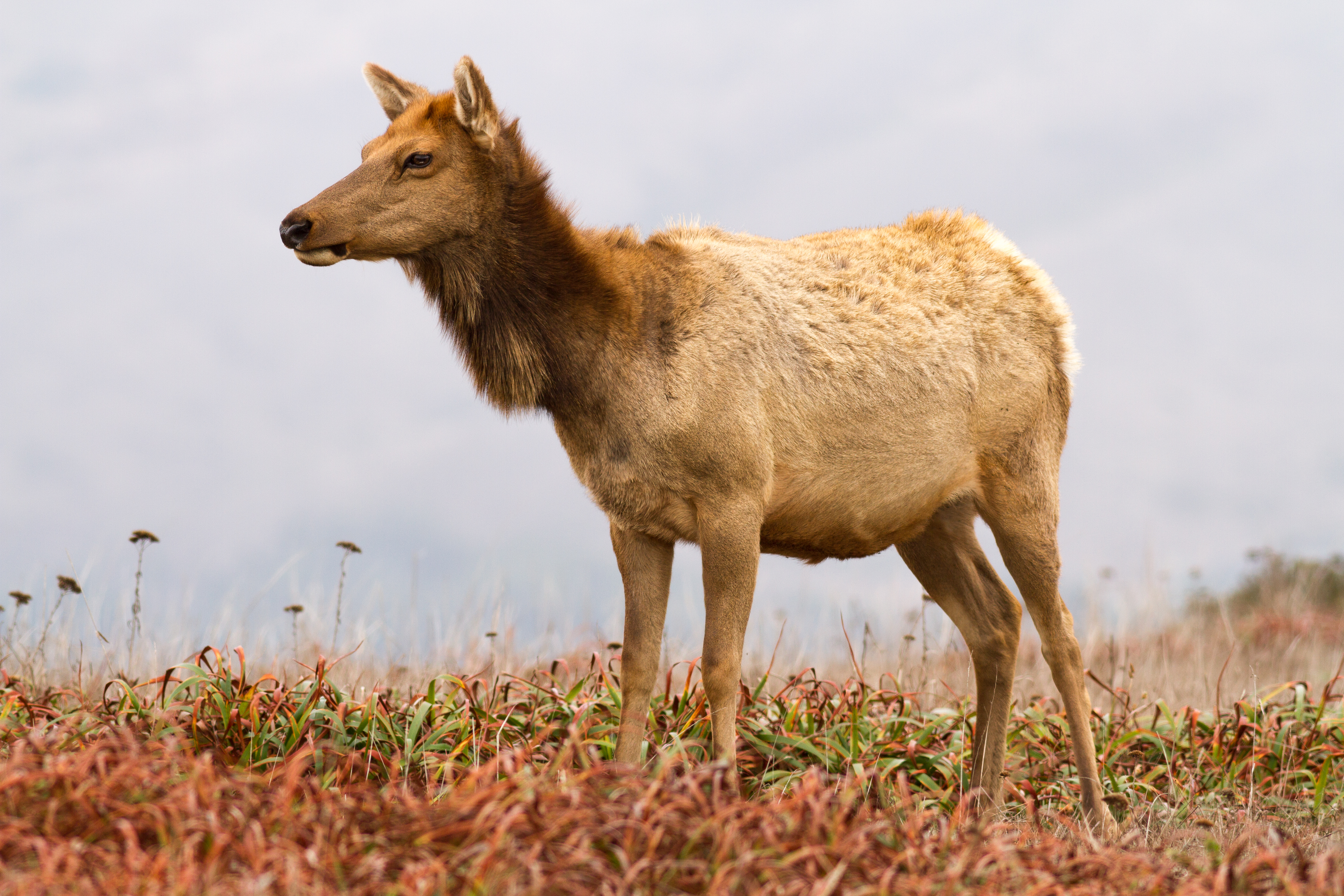 Female Tule elk (Cervus canadensis nannodes) at Tomales Point, Point Reyes National Seashore, Marin County, California.